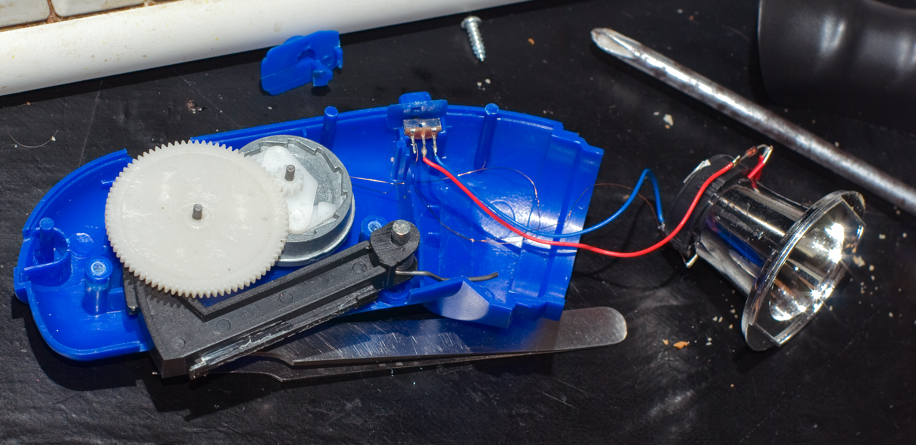 A "dyno torch" hand powered flashlight, disassembled to show mechanism. Pumping the handle turns an electric generator, producing electric current which powers the light bulb.